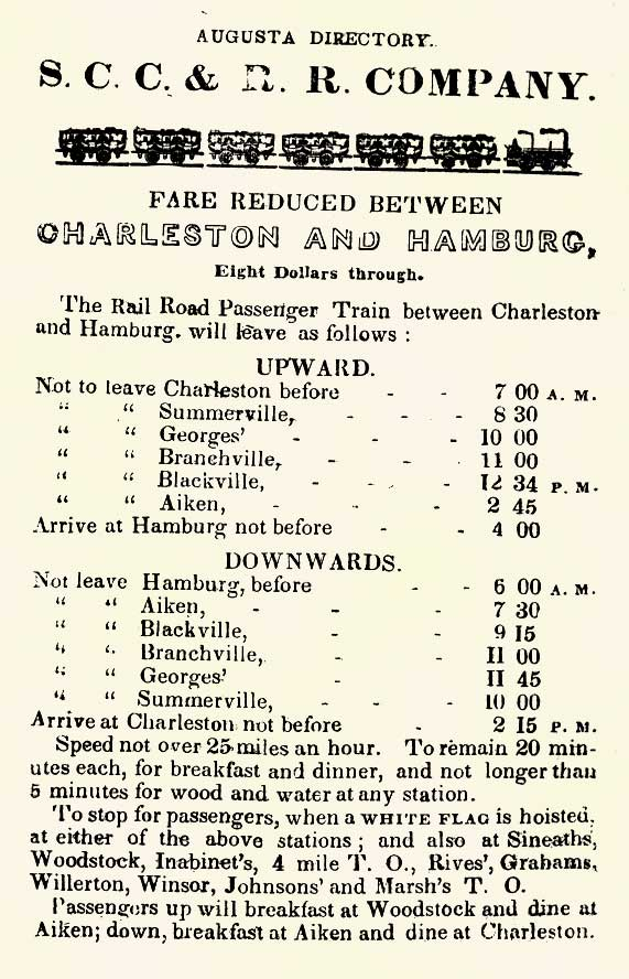 South Carolina Canal and Railroad Company Schedule, 1841